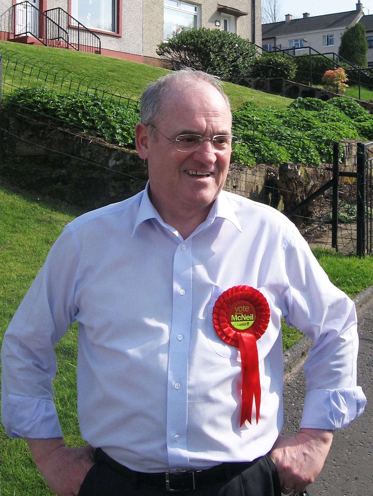 Duncan McNeil, Labour candidate for the Greenock and Inverclyde Scottish Parliament constituency, campaigning in Greenock.